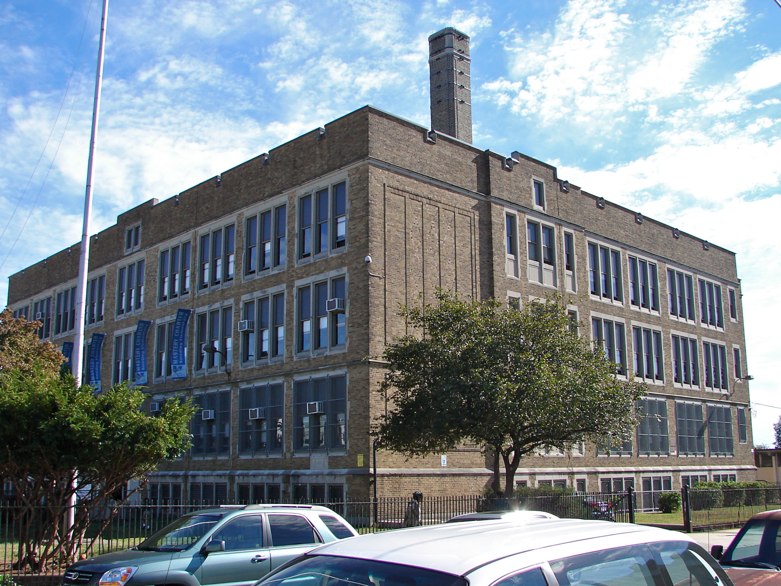 Franklin Smedley School in Philadelphia on the NRHP since November 18, 1988. At 1790 Bridge Street in the NE Philly neighborhood of Frankford, a few blocks east of the the Frankford Transportation Center.